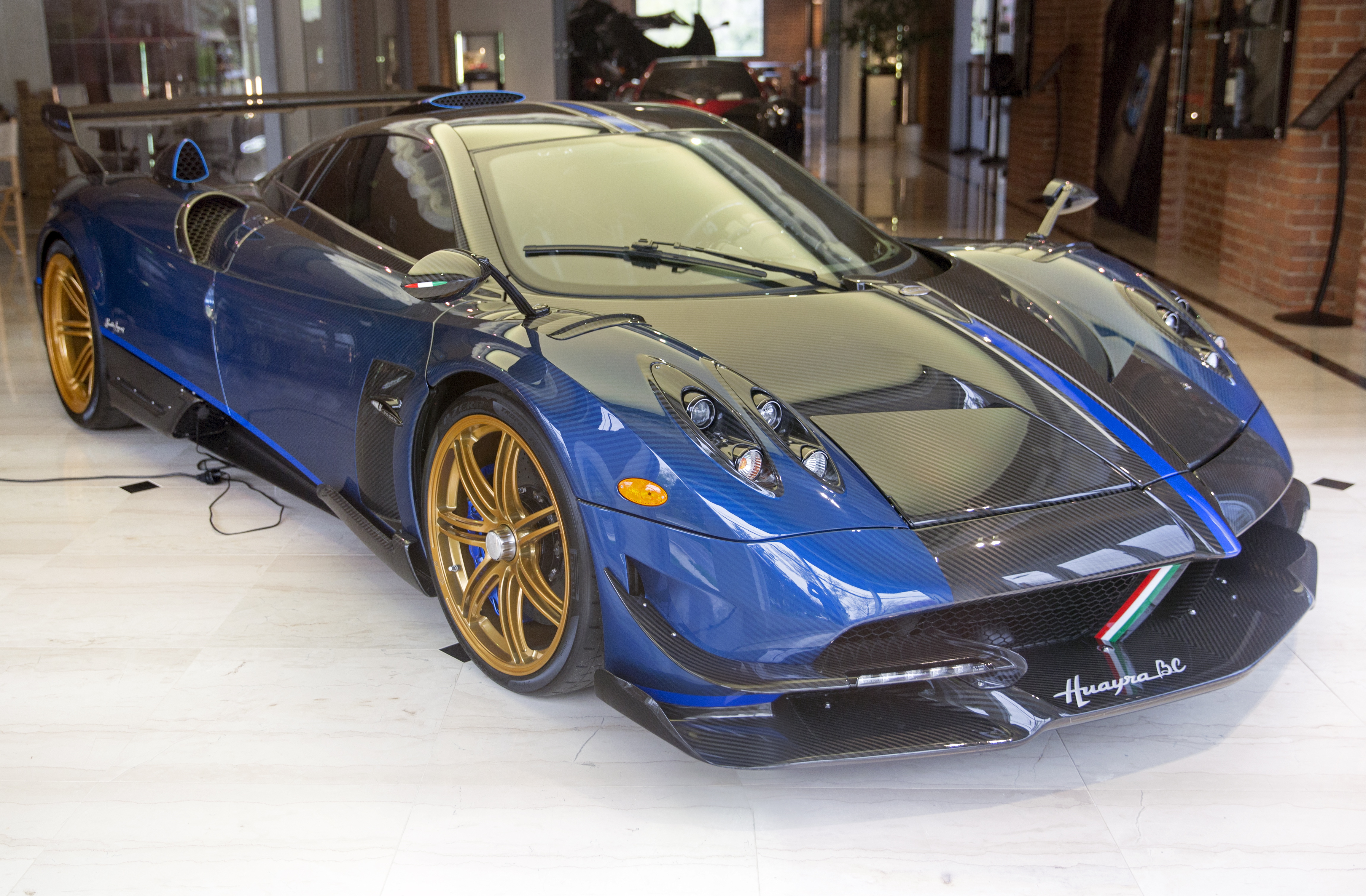 A 2017 Pagani Huayra BC Macchina Volante, a special version of a special edition built in a single example for collector Kris Singh blue carbon fiber extra air intakes italian flag adornment bla-di-bla-di-bla. Currently for sale at an undisclosed amount.